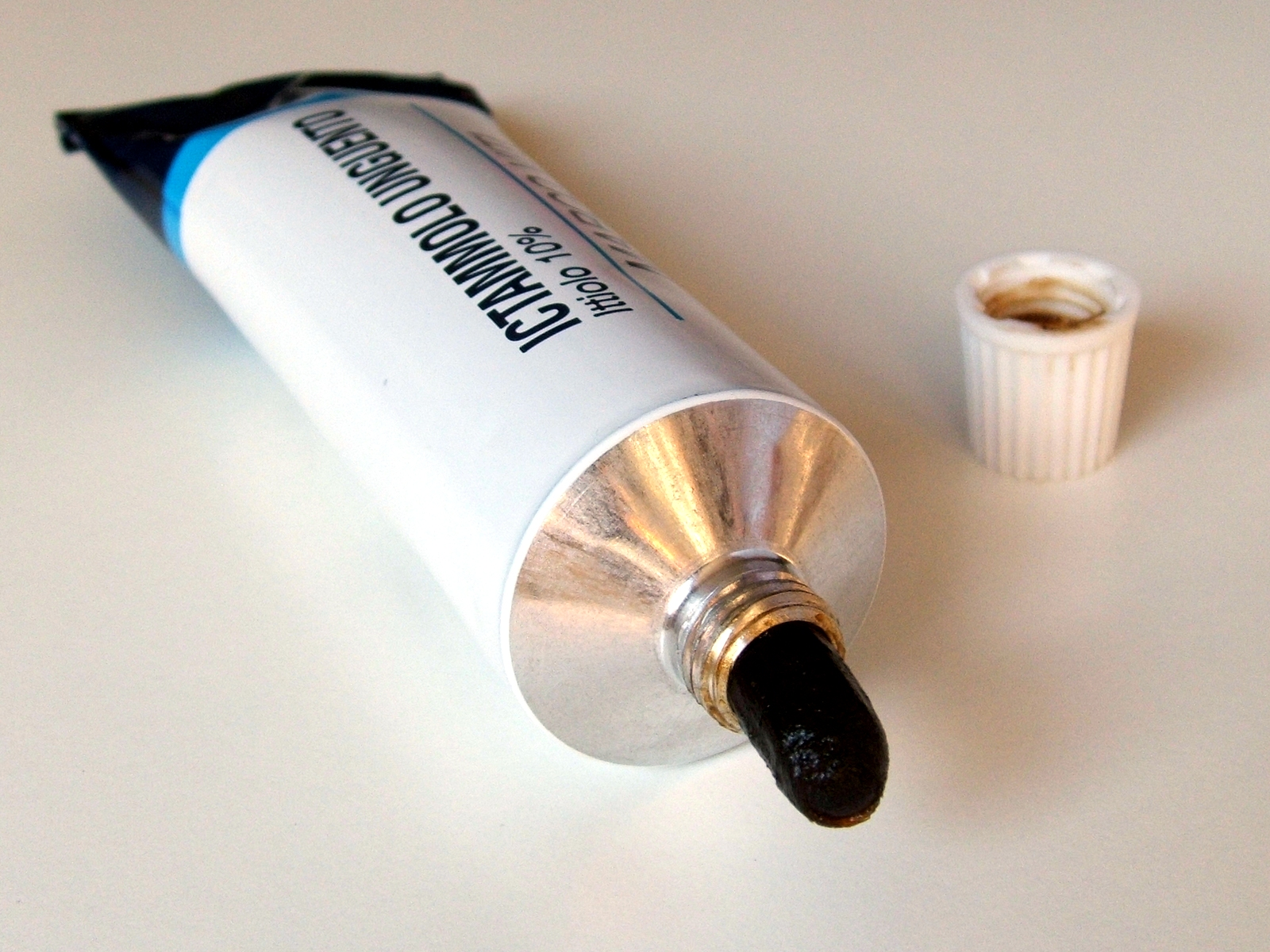 A tube of ichthammol